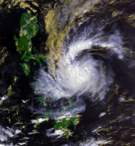 This image shows Tropical Storm Thelma just prior to landfall on November 4 at 0511 UTC. This image was produced from data from NOAA-11, provided by NOAA.